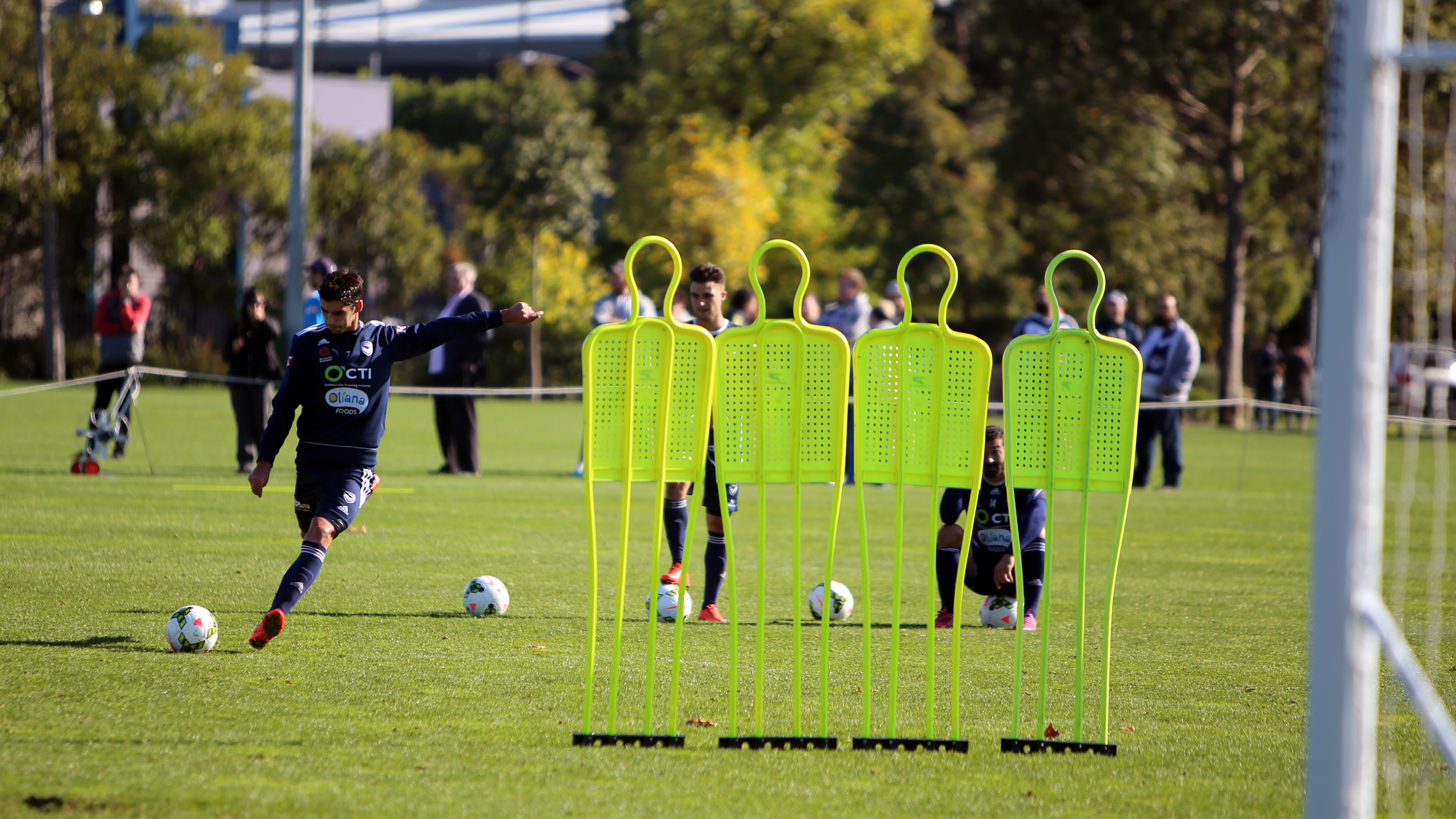 Guilherme Finkler training for Melbourne Victory, May 2015